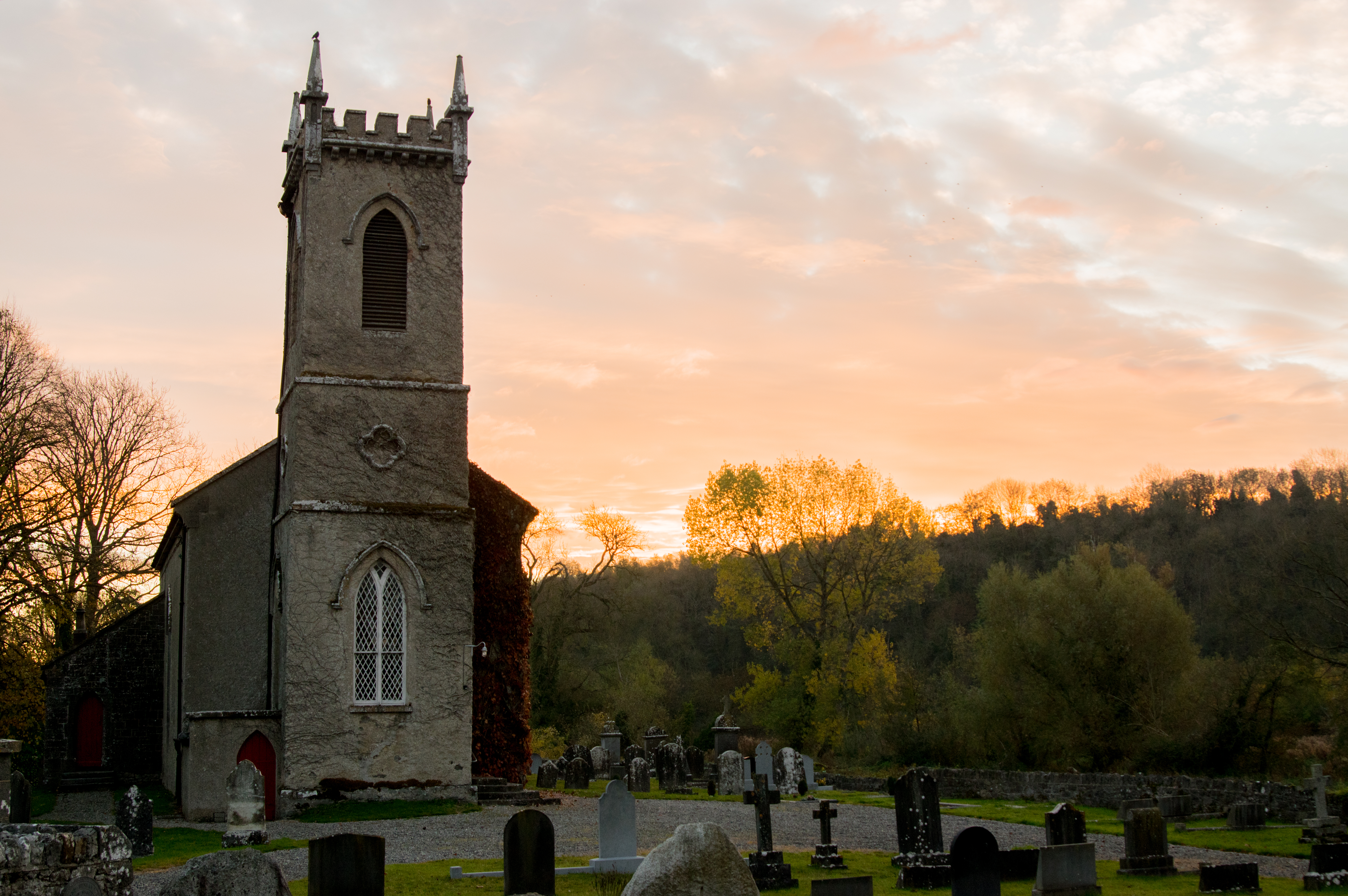 Photo credit Chris Steckroth. Taken 10/30/18 with Pentax K-3, 28mm f/4.5 1/125 ISO-200